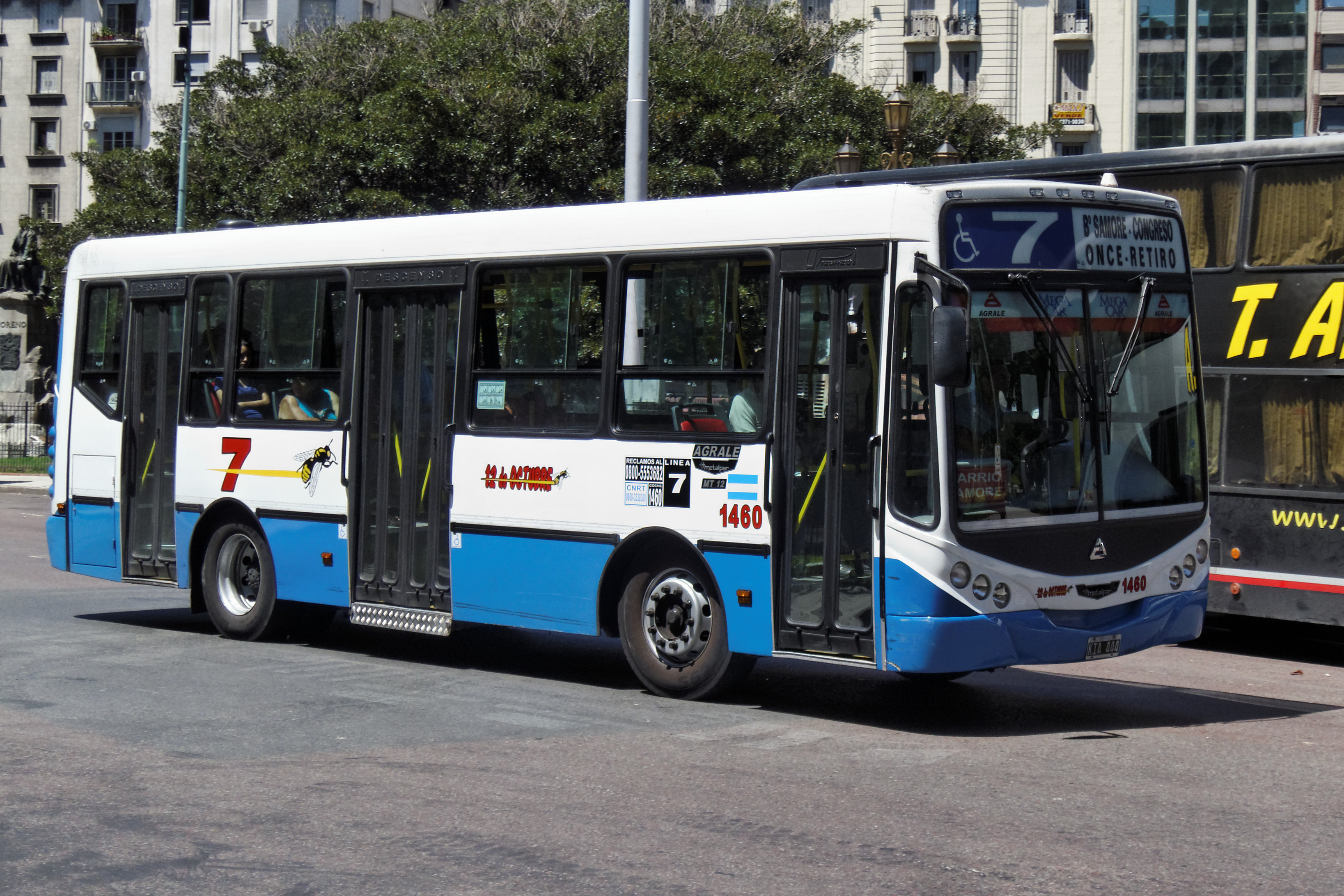 Metalpar Iguazú II midibus (reg. KIA 444, #1460), with Agrale MT 12 chassis, in Buenos Aires, Argentina. Colectivo, line 7, Transportes Automotores 12 de Octubre S.A. (D.O.T.A.) operator.